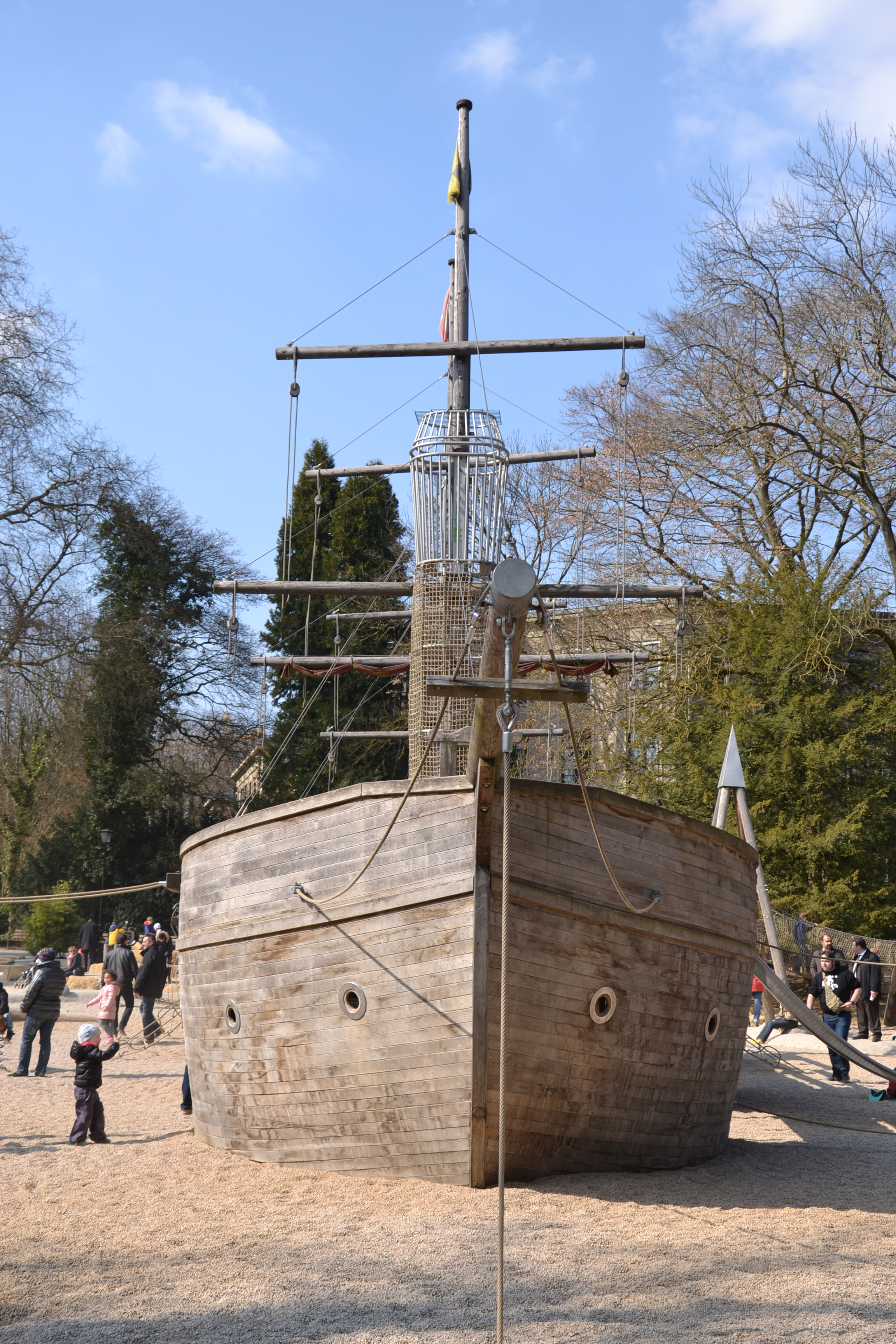 Playground in Parc Municipal (Luxembourg City)